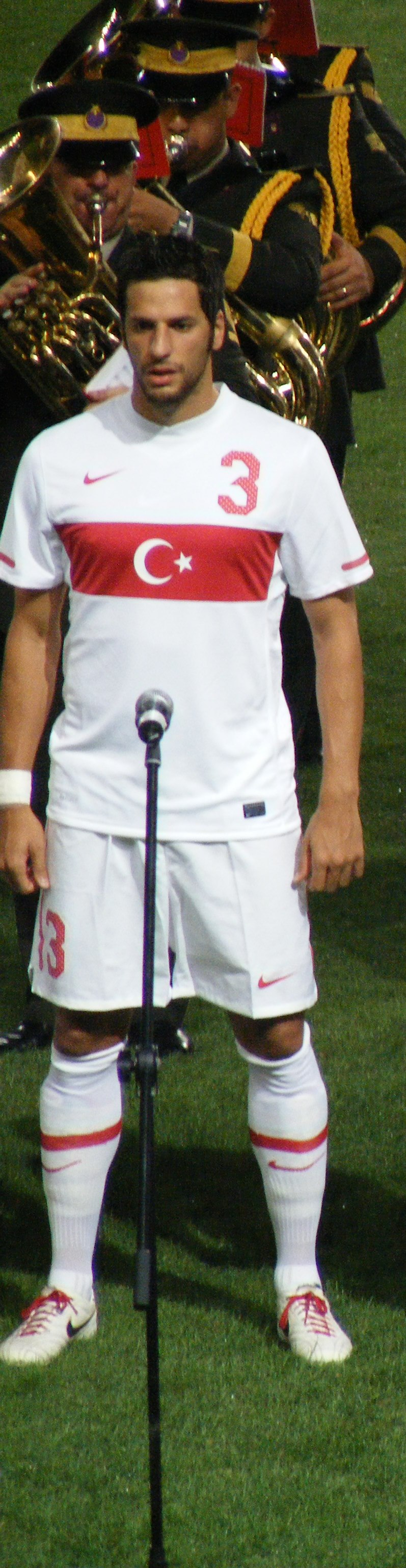 Hakan K. Balta in national jersey at match vs Romania in 11st Aug 2010, Wednesday at Fenerbahce Stadium, Istanbul